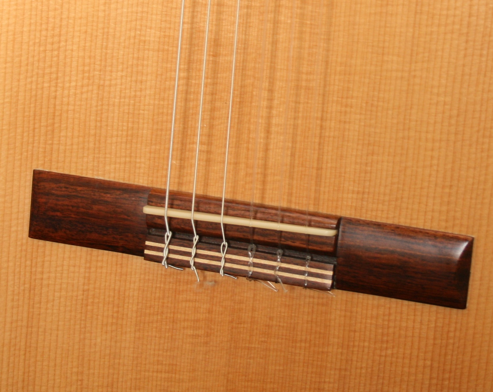 Bridge of a classical guitar with bone saddle